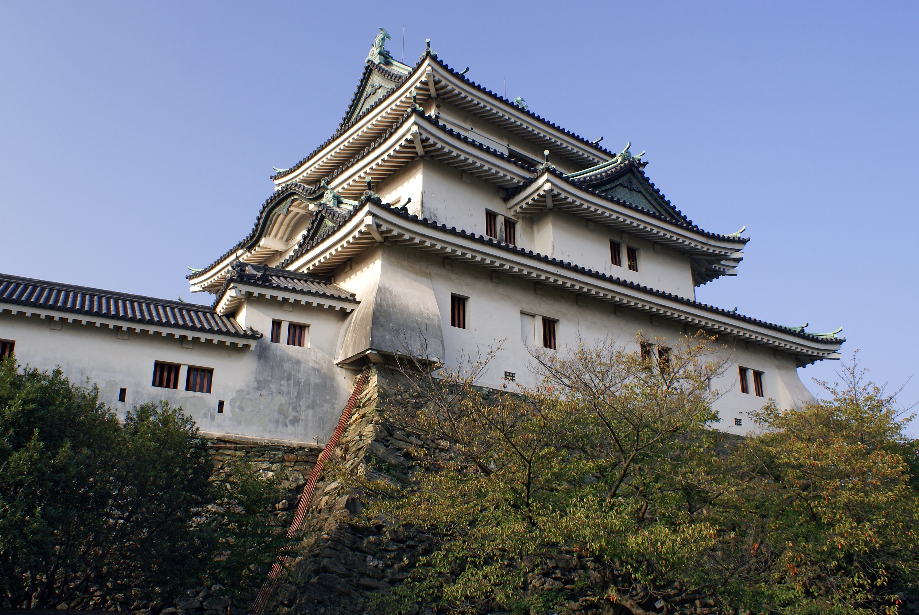 Wakayama Castle, Wakayama, Wakayama prefecture, Japan